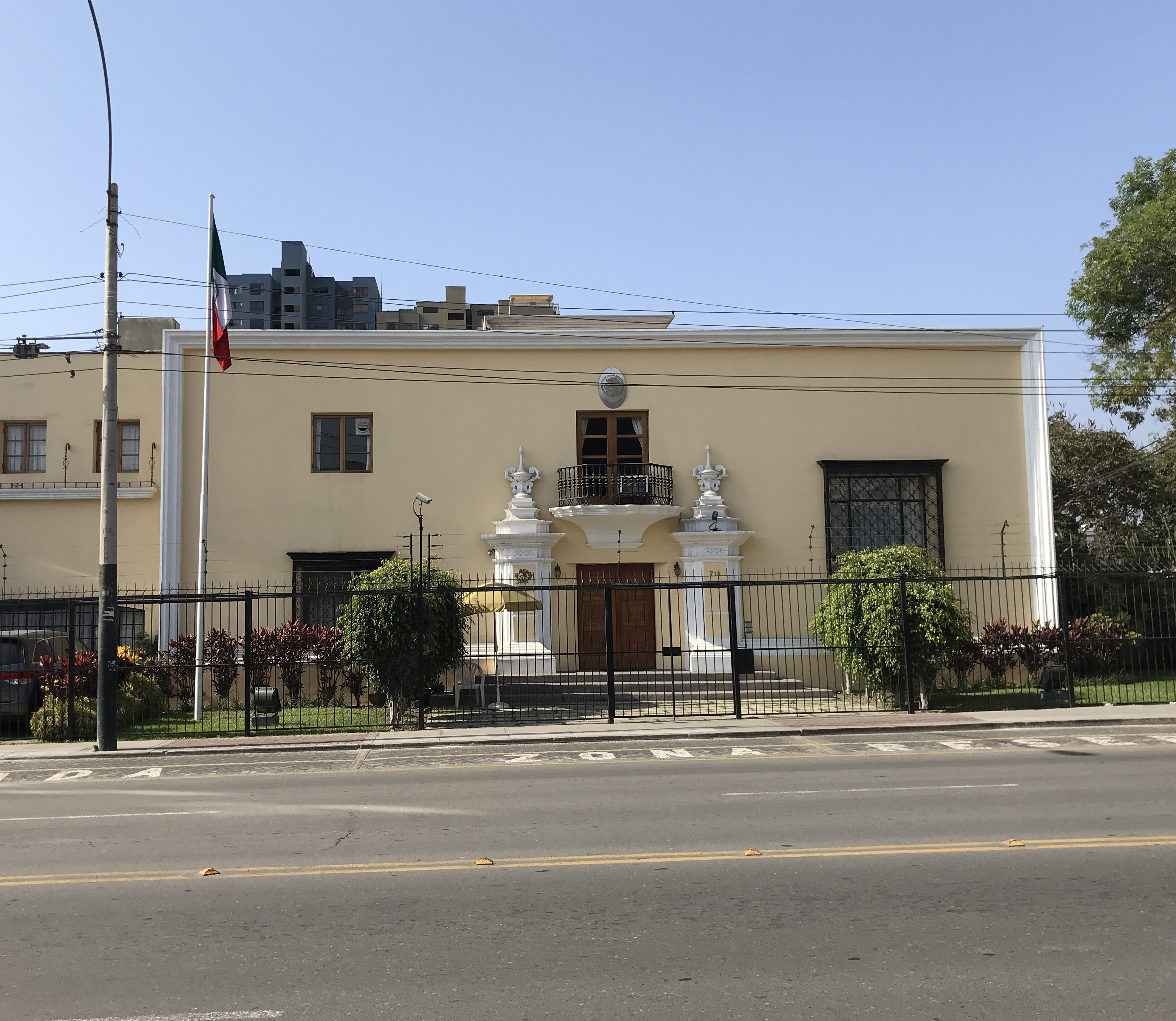 Embassy of Mexico in Lima, Peru